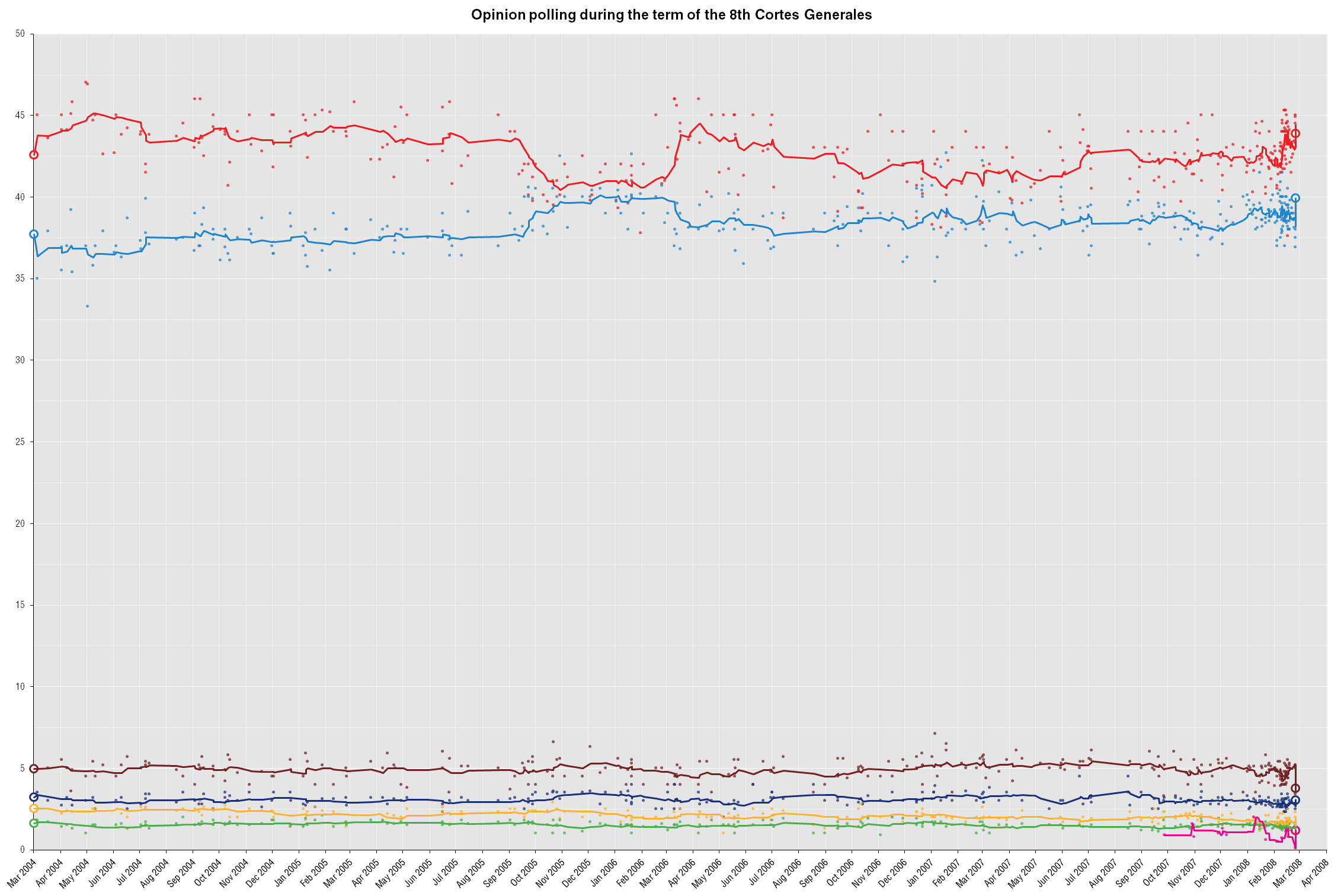 10-point average trend line of poll results from 14 March 2004 to 9 March 2008, with each line corresponding to a political party. PSOE PP IU CiU ERC PNV UPyD